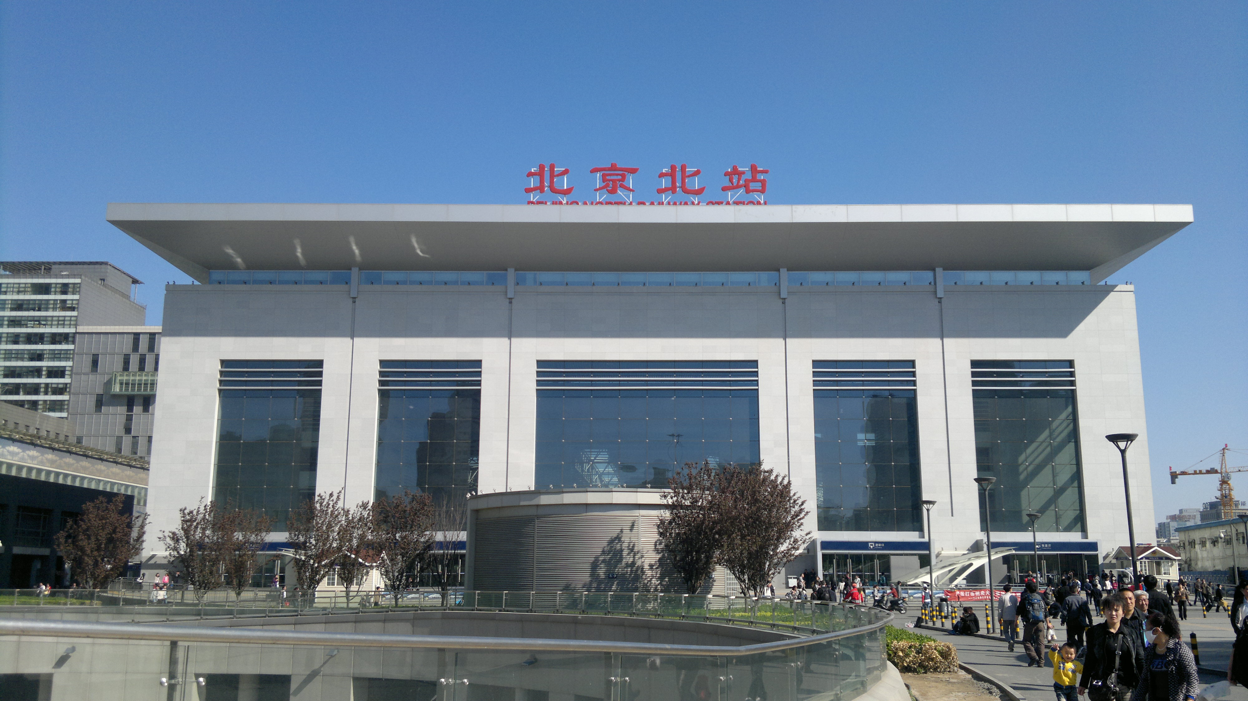 Beijing North Station Train travel greatwall thegreatwall "the great wall of china"